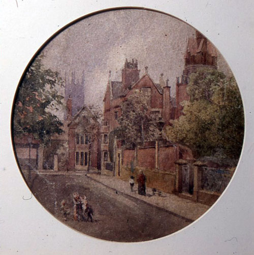 Derby Museum and Art Gallery early when there was a house for the curator Beckett Street by Georg Holzendorff